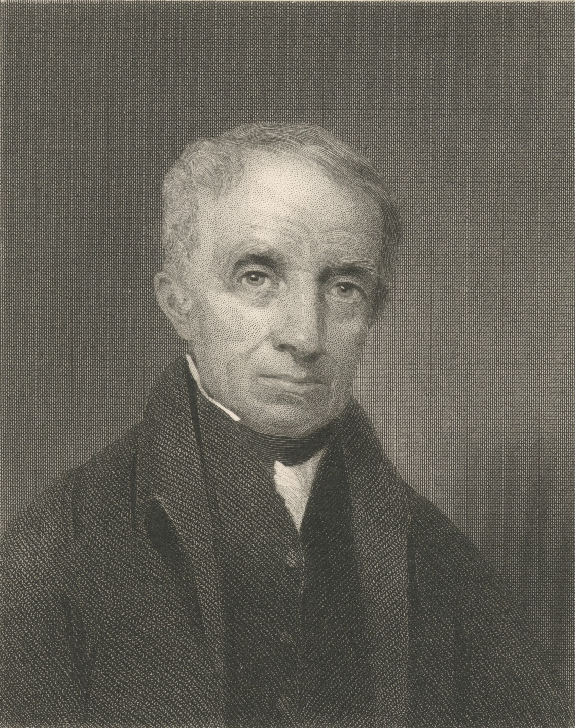 Includes photographic reproductions. Printmakers include Alexander Anderson, W.J. Bennett, C.G. Childs, A.J. Davis, A.B. Durand, Eliza Greatorex, George Hayward, John Rodgers & Imbert's Lithographic Office. Title from Calendar of Emmet Collection. EM11303 Statement of responsibility : F. Halpin